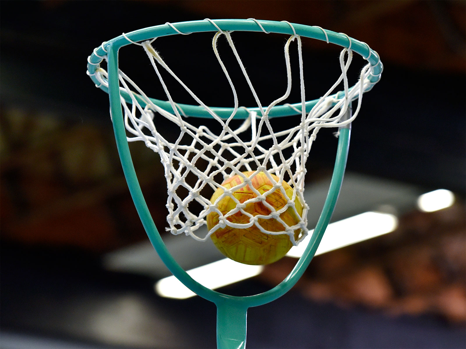 A Korbball entering a Korbball basket.